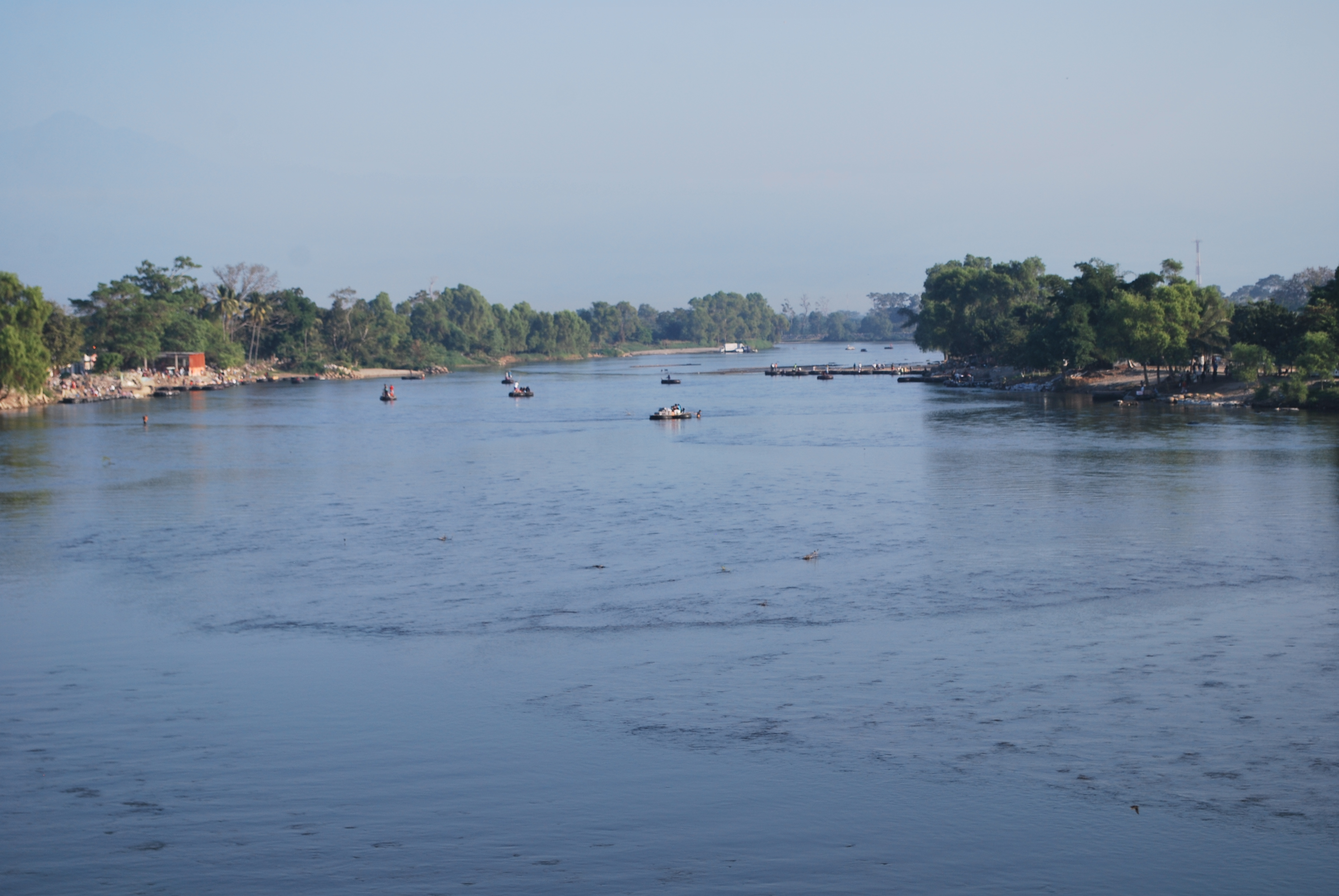 View of the Suchiate River from the border bridge between Ciudad Hidalgo and Ciudad Tecun Uman People crossing illegally can be seen in the background